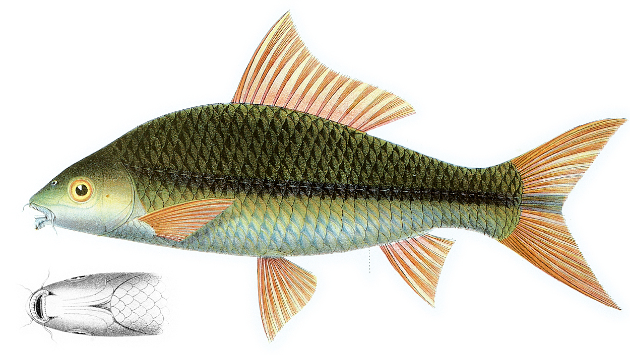 Osteochilus waandersii, described in the original publication as Rohita (Rohita) Waandersi